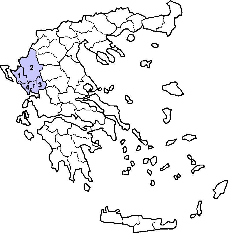 Prefectures of Epirus, Greece